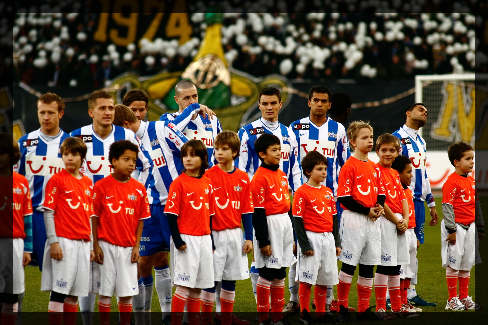 Canon 30D & 300mm f/4